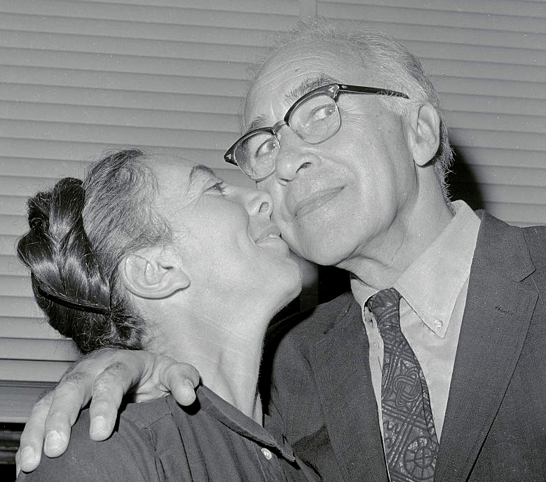 1967 Press Photo Dr George Wald,Biology prof. at Harvard & wife as he wins Nobel